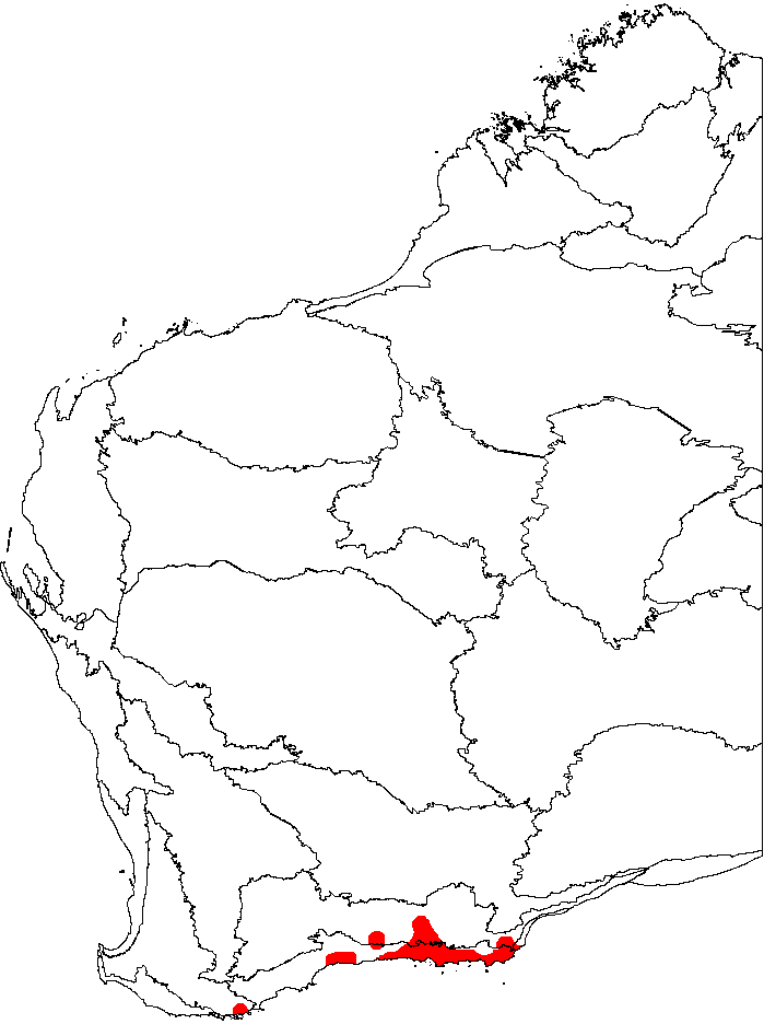 This is a map of Western Australia, showing the distribution of Banksia speciosa (Showy Banksia) on a map of the IBRA 6.1 biogeographic regions.